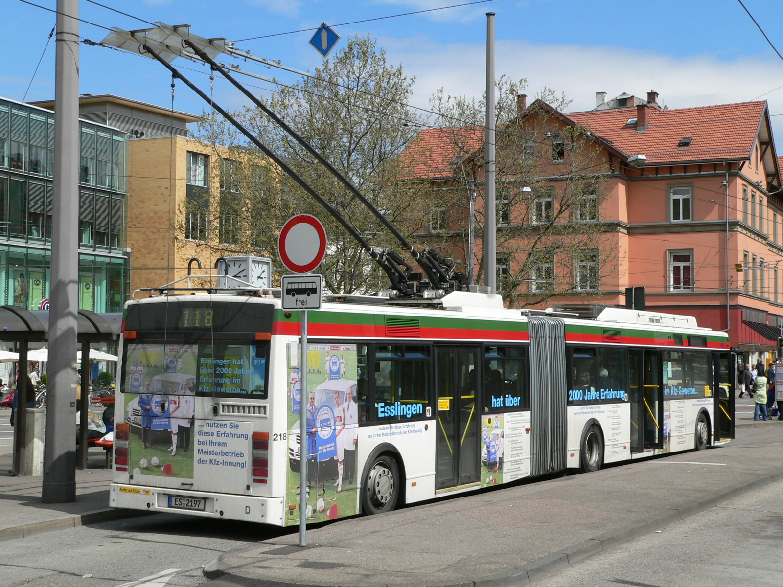 Van Hool trolley bus in Esslingen am Neckar, Germany